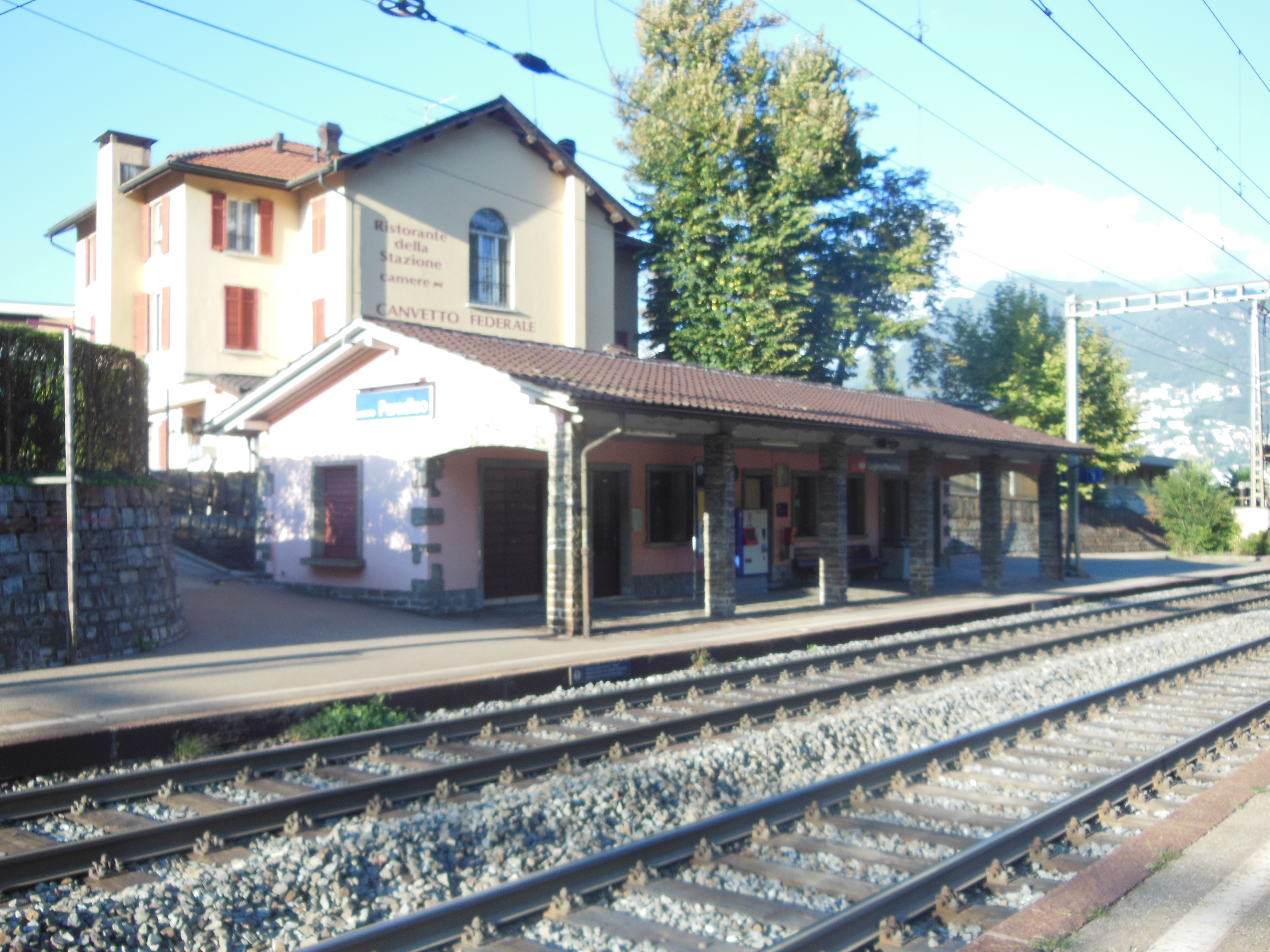 The east side (Chiasso bound) buildings of Lugano-Paradiso railway station in Switzerland. For more information, see Lugano-Paradiso railway station.